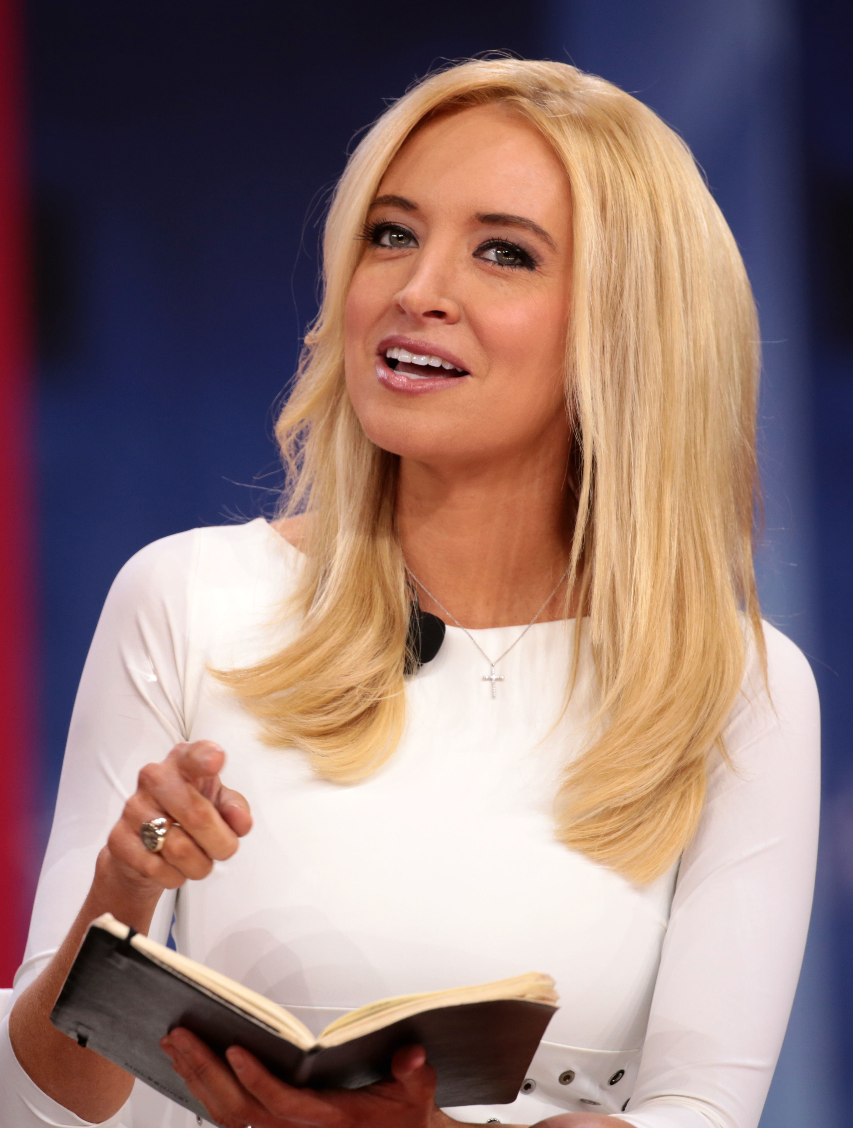 Kayleigh McEnany speaking at the 2018 CPAC in National Harbor, Maryland.